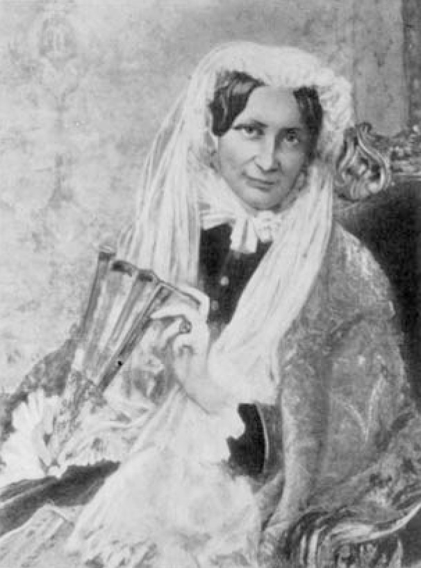 Portrait of Carolyne zu Sayn-Wittgenstein